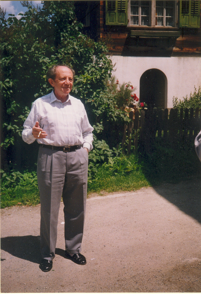 György Sebök in Ernen 1991